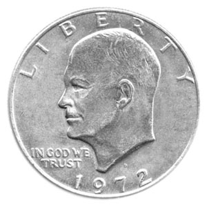 Picture of Eisenhower dollar